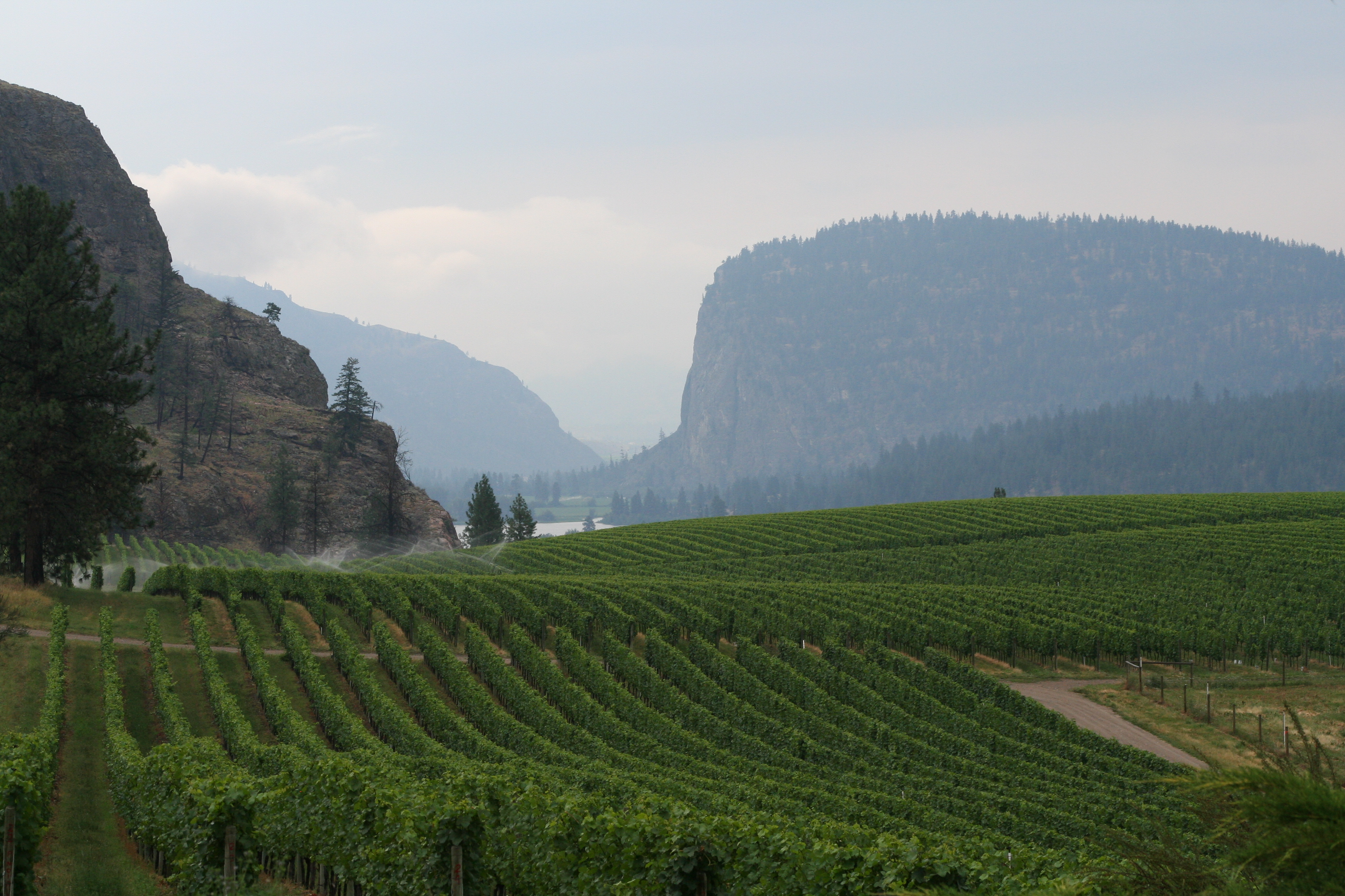 Blue Mountain Vineyard, British Columbia.